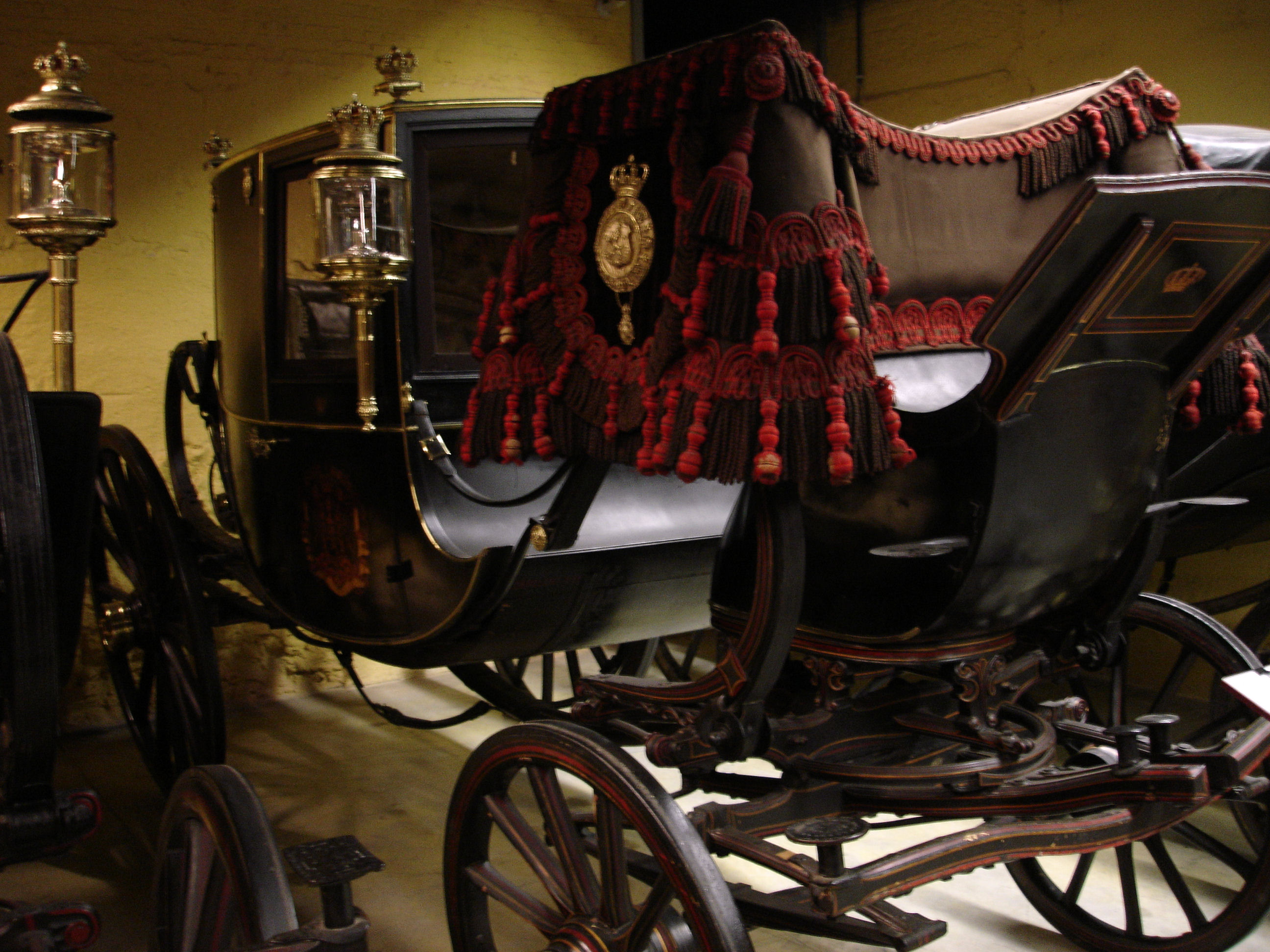 own work